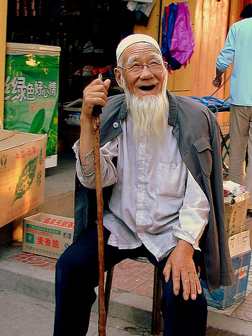 Elderly Hui man